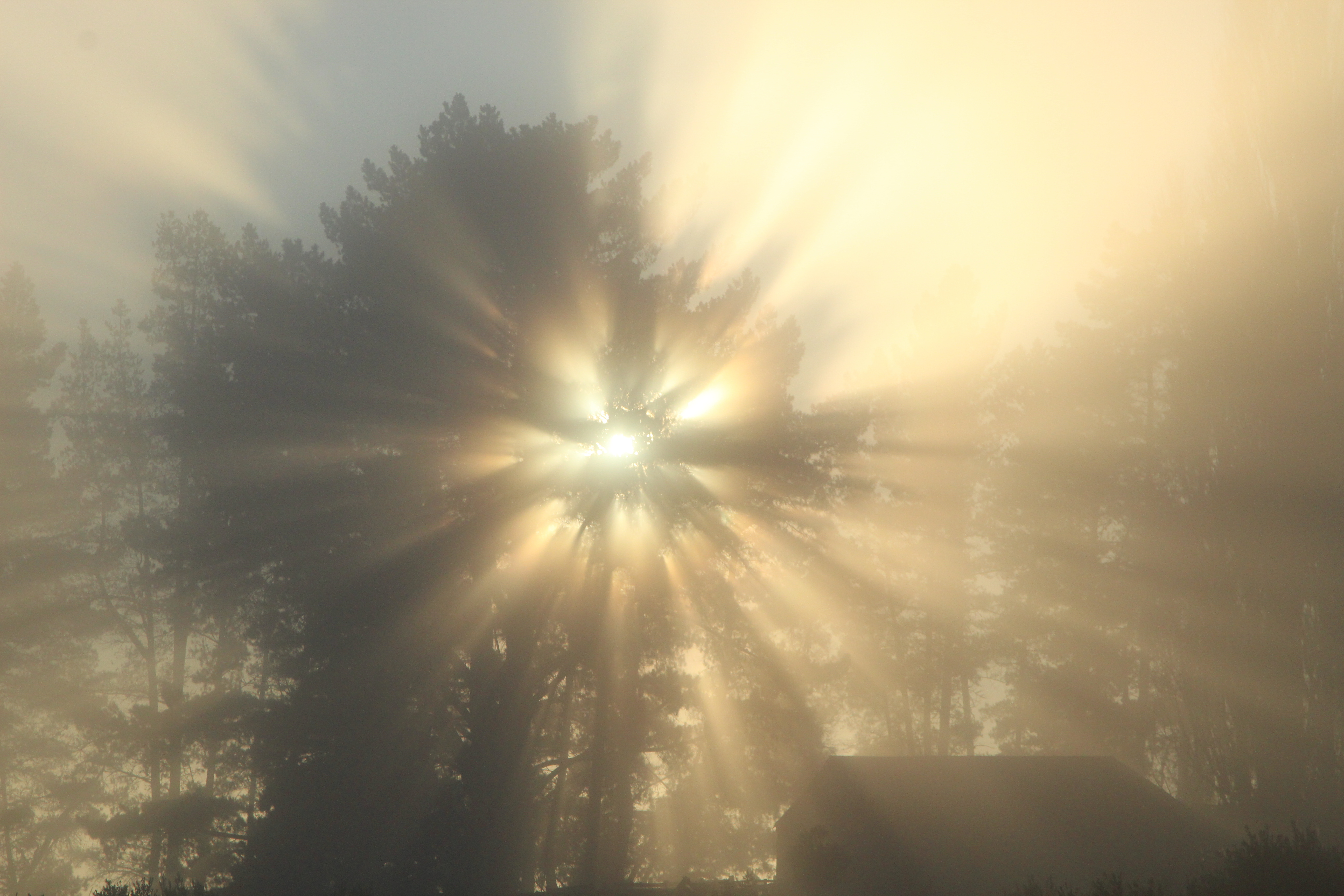 Fog and sunrise in a pine tree. This is an optical phenomenon involving crepuscular rays, rather than a physical fire. The explanation for this burning bush is a thin and localised fog in a pine tree, with an otherwise clear sky, and a bright sun close to the horizon. The beams of light are created by gaps between the branches, and the fog makes the light beams visible without being thick enough to obscure them completely. Small movements of viewing perspective cause the beams to change and appear to move. The beams of light coming from the tree are all parallel, but the viewer's perspective creates a parallax effect whereby the beams seem to diverge outwards.